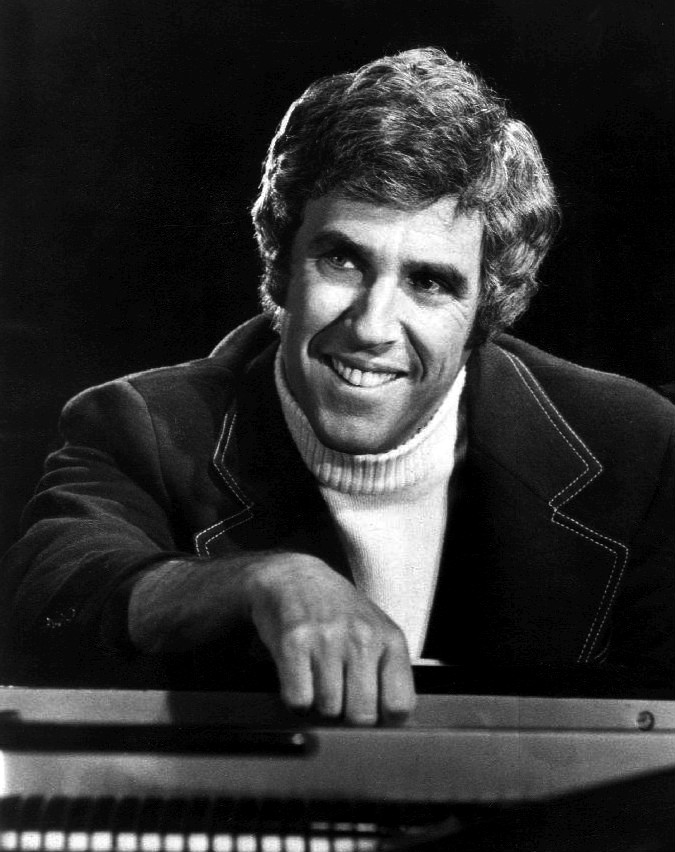 Photo of Burt Bacharach from a television special "Burt Bacharach Special".